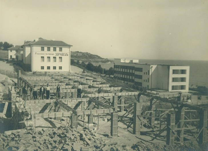 Construction of a student's holiday house at the "Druzhba" resort.